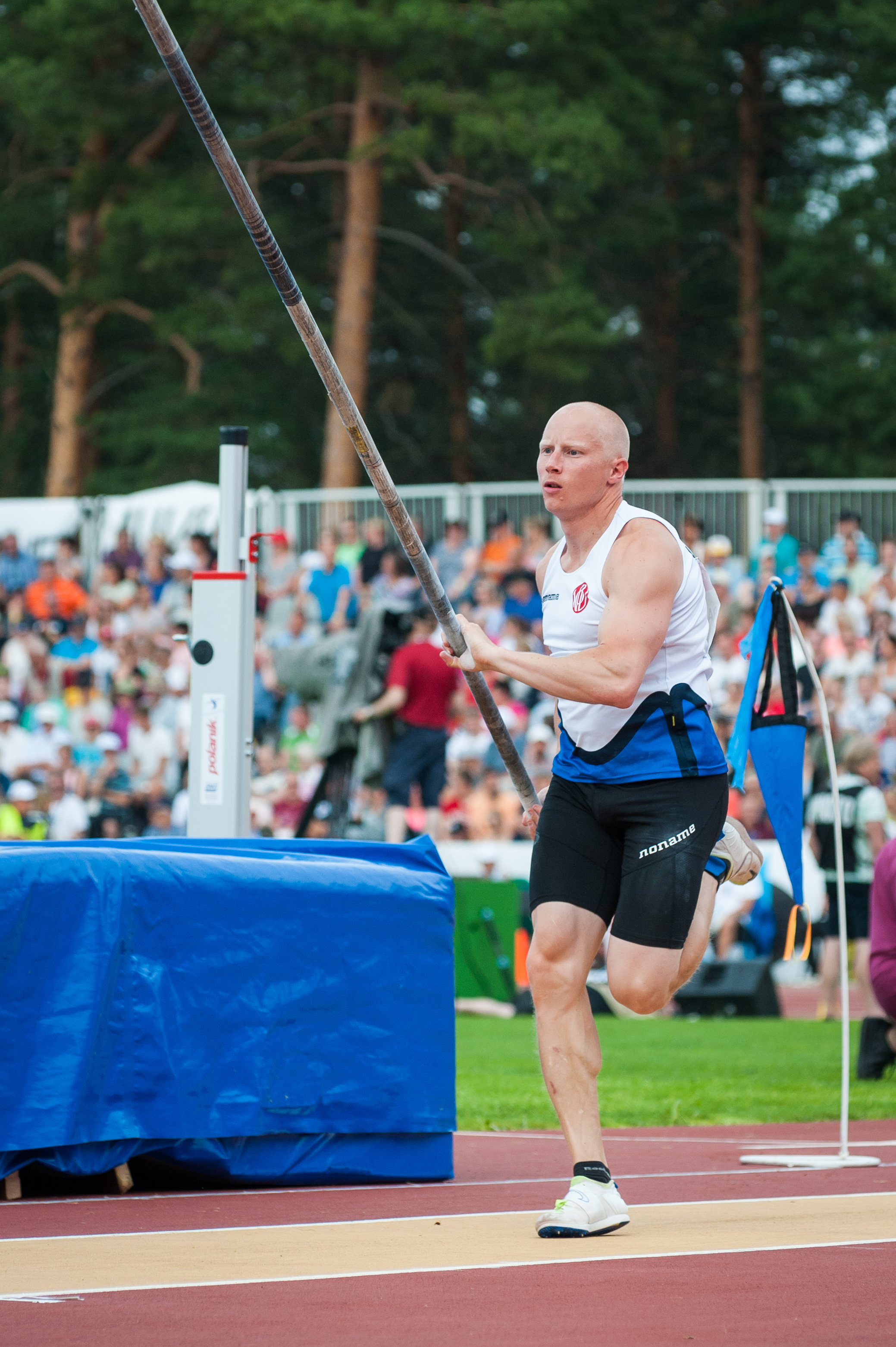 Men's pole vault competition at the 2018 Kalevan Kisat, the Finnish championships in athletics, in Jyväskylä, Finland.